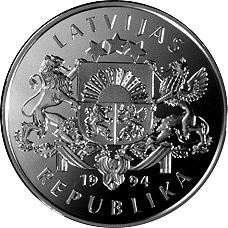 Latvian commemorative coin